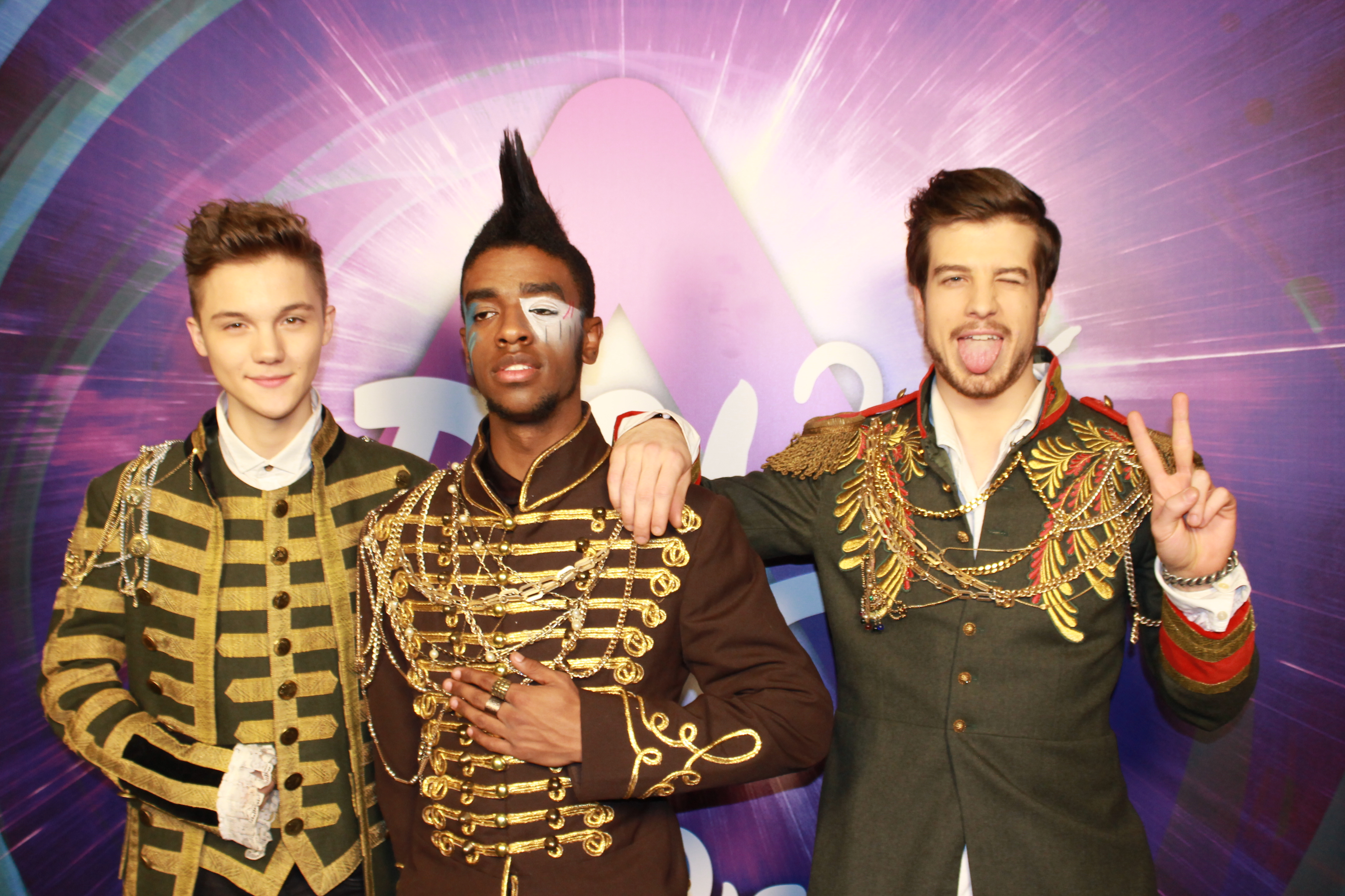 A Dal 2016 finalist: Mushu